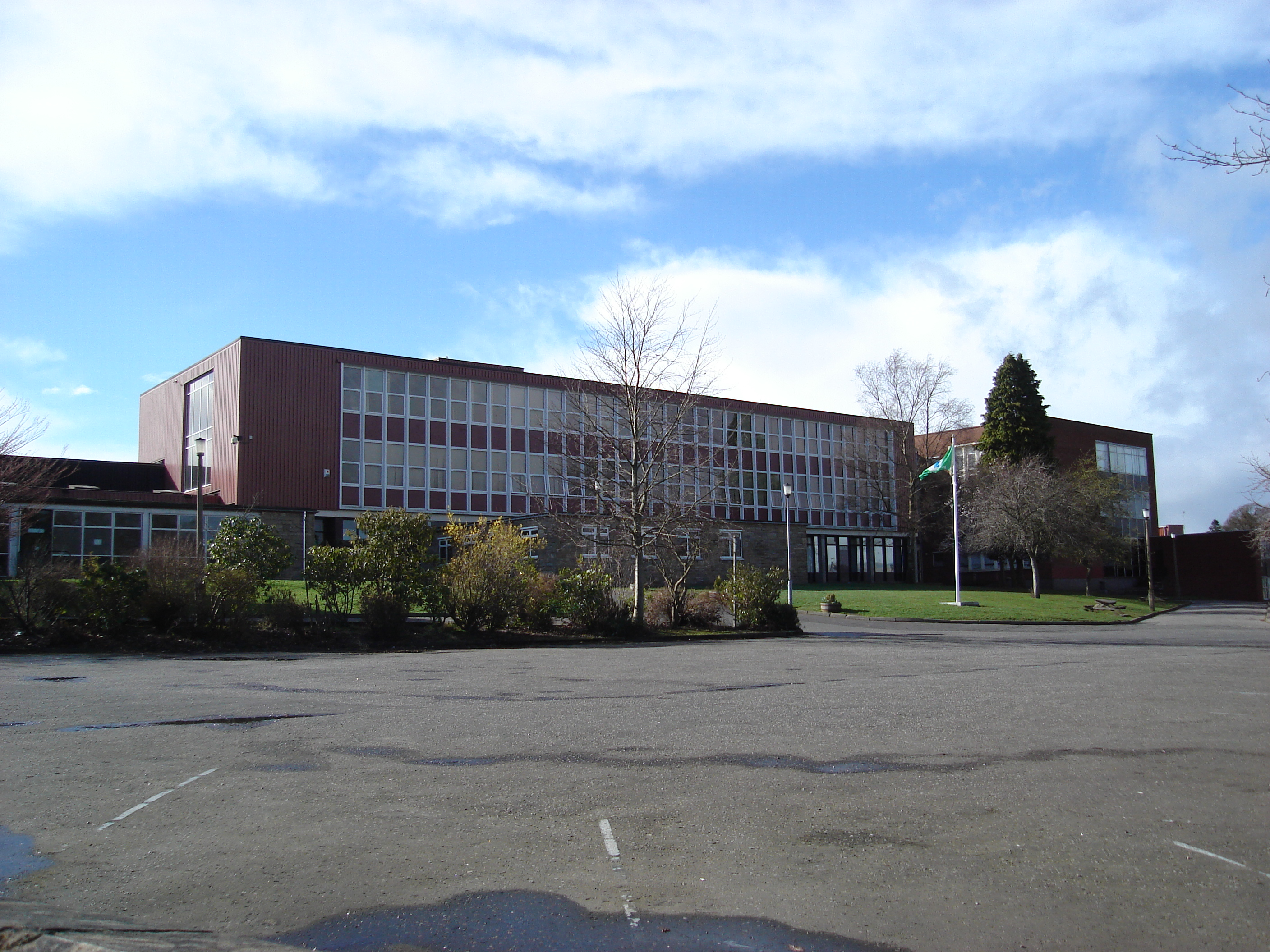 The second (1960s era) premises of the High School of Stirling in Stirling, Scotland